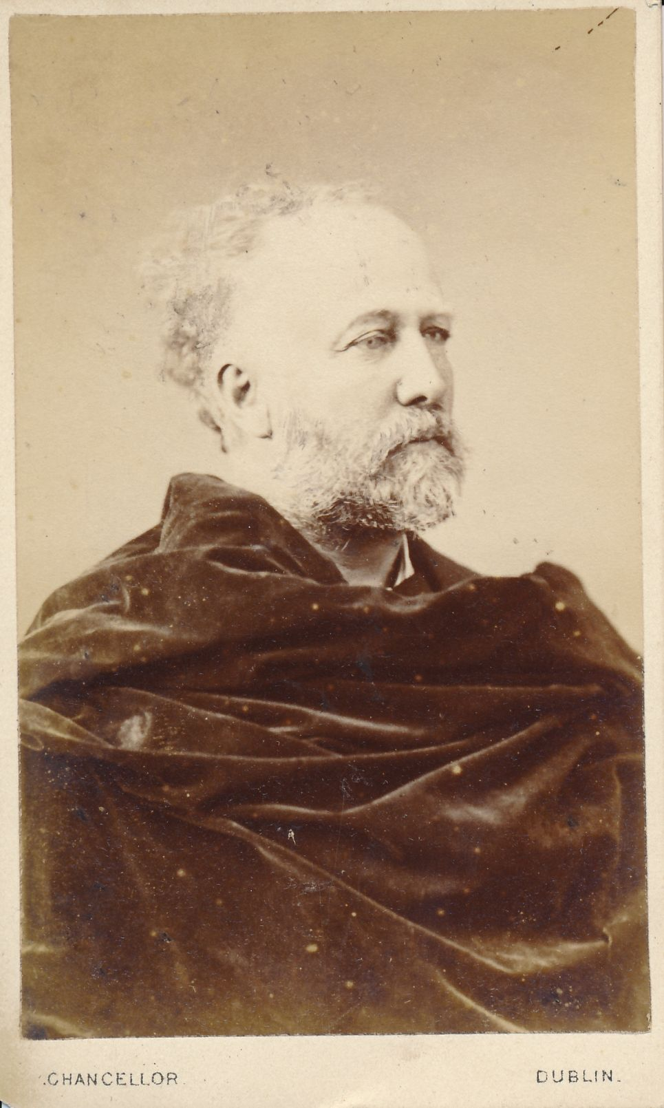 Thomas Conolly MP - 1875 - cdv printed by Chancellor, 55 Lower Sackville Street, Dublin